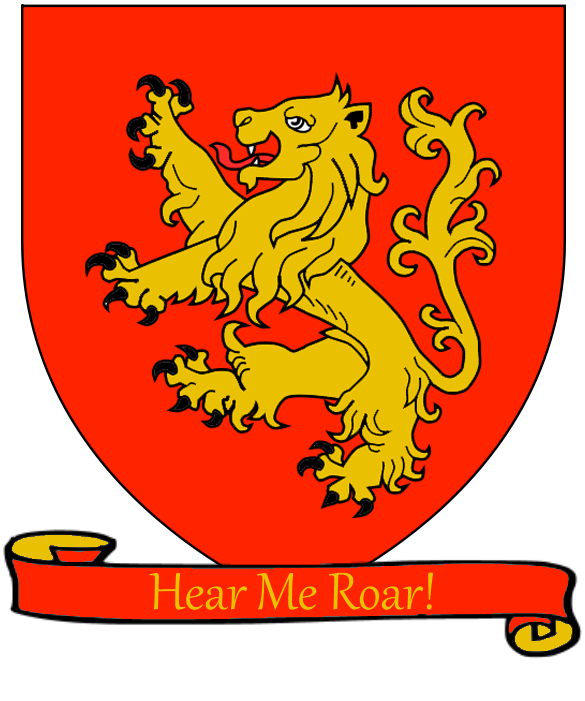 A fictional coat of arms. Arms of House Lannister. “ Blazon: Shows a golden lion on a red field. Underneath is a scroll bearing a motto: Hear Me Roar!. ” “ Blasonamiento: De gules, un león de oro. Lema: ¡Oye mi rugido!. ”